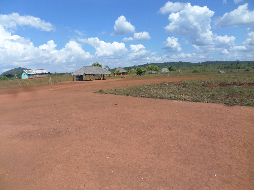 Indigenous Village Água Boa